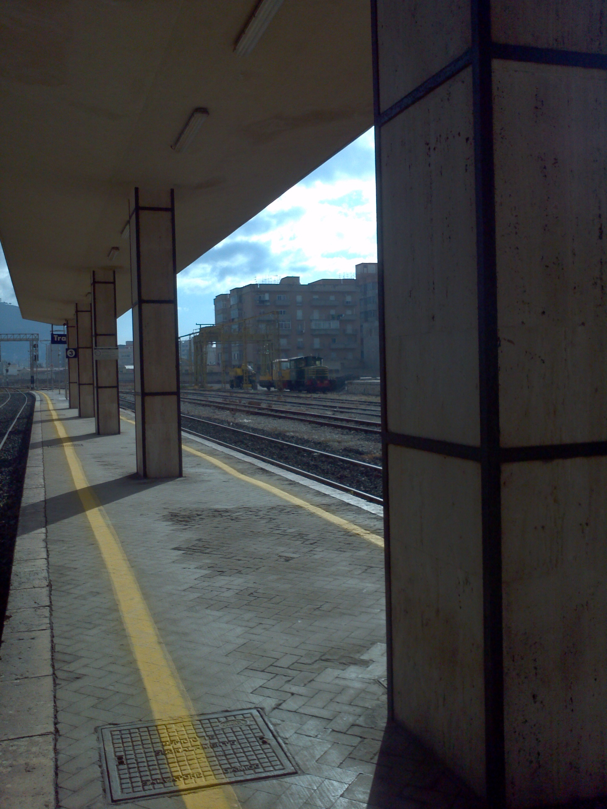 Trapani Station track 3+4